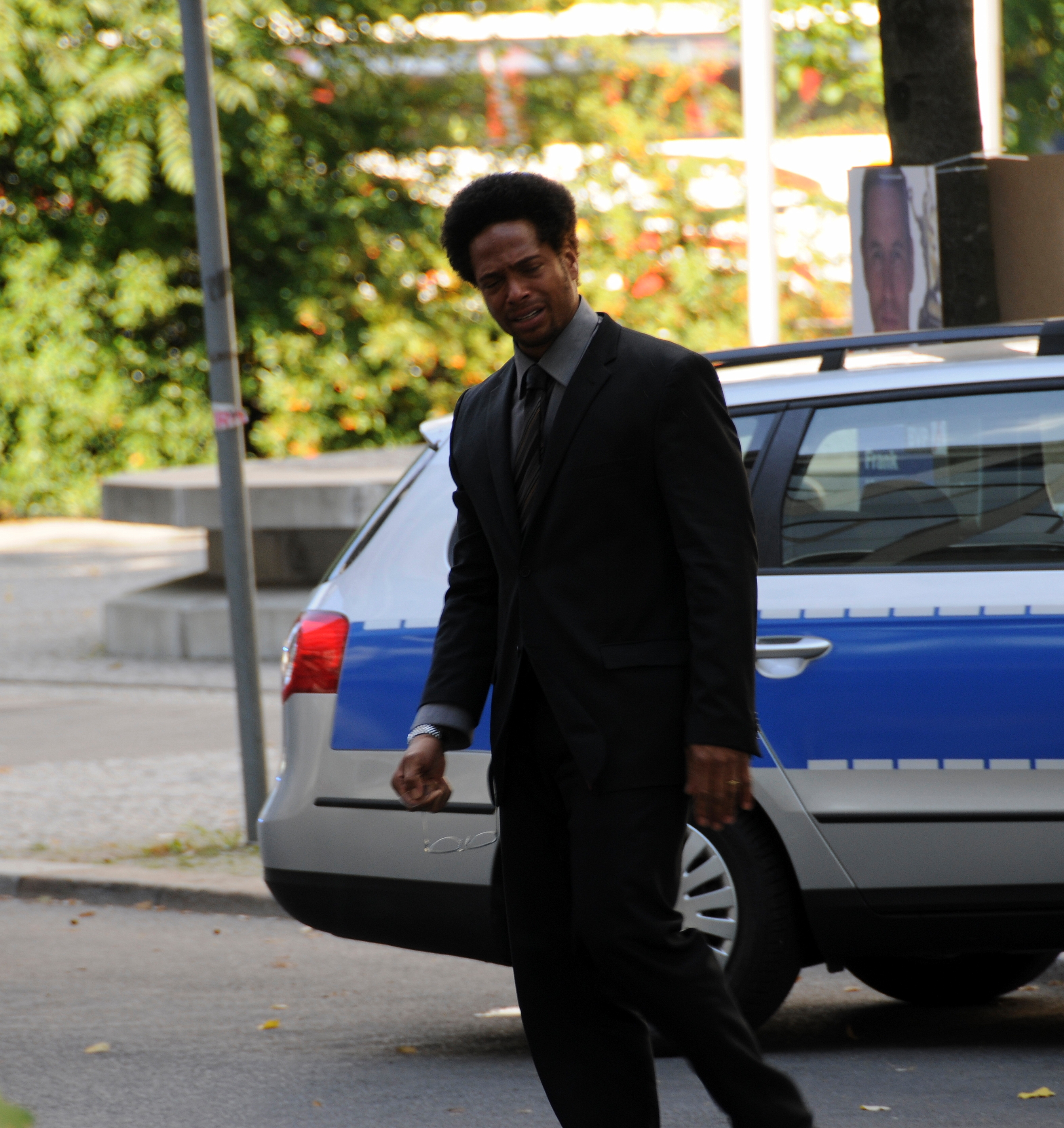 Gary Dourdan, film act in Berlin, Germany